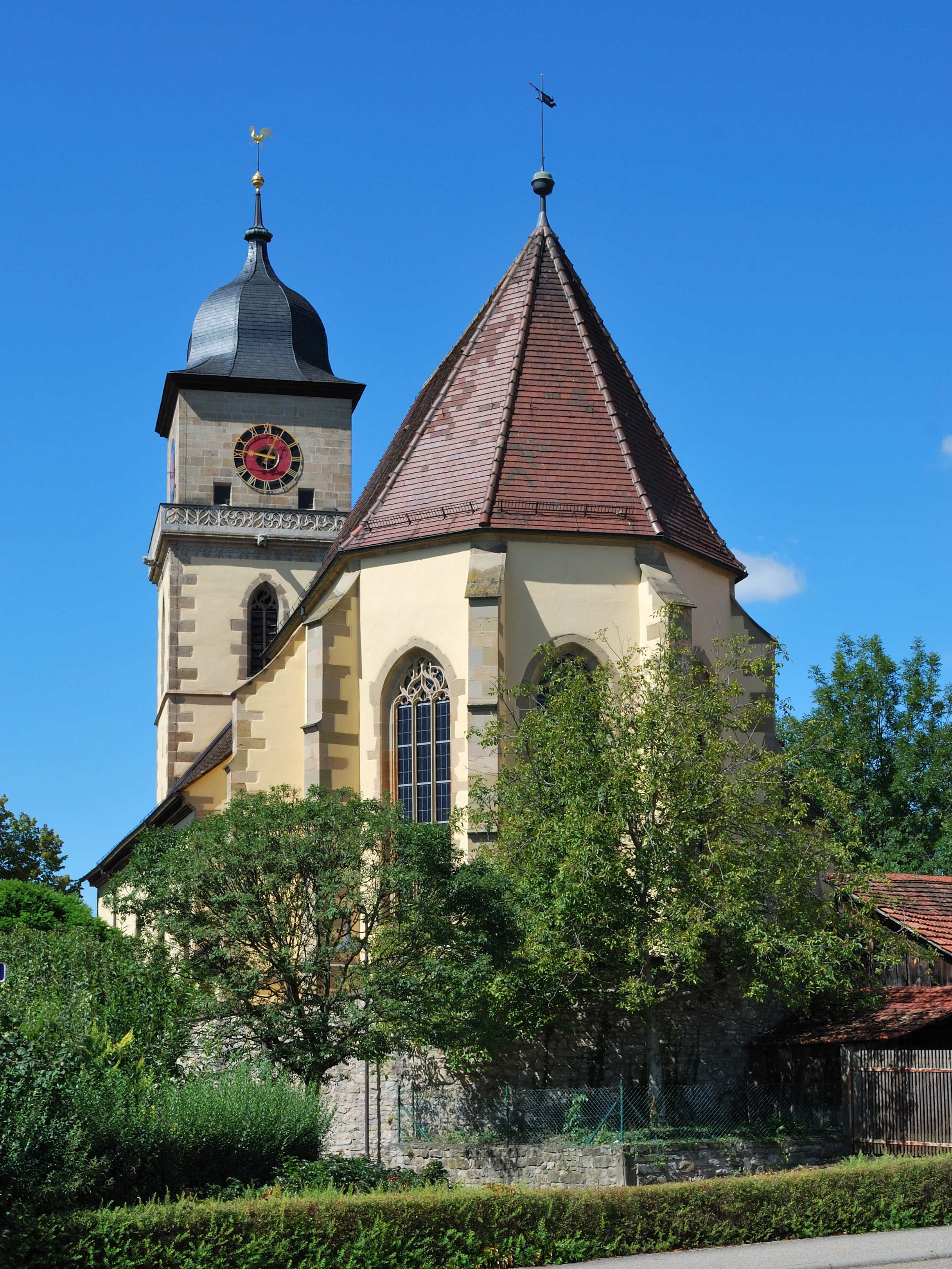 Evangelical parish church St. Georg in Schwieberdingen in the federal state Baden-Württemberg in Germany. View from the east.